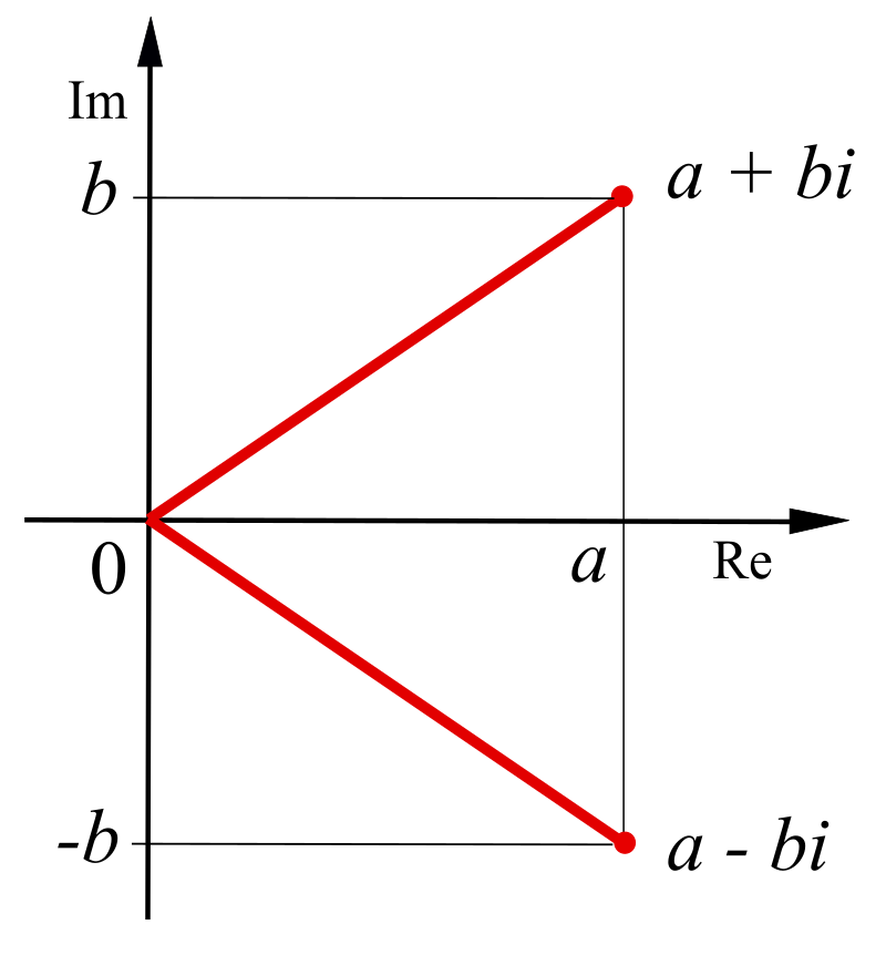 Conjugated complex number